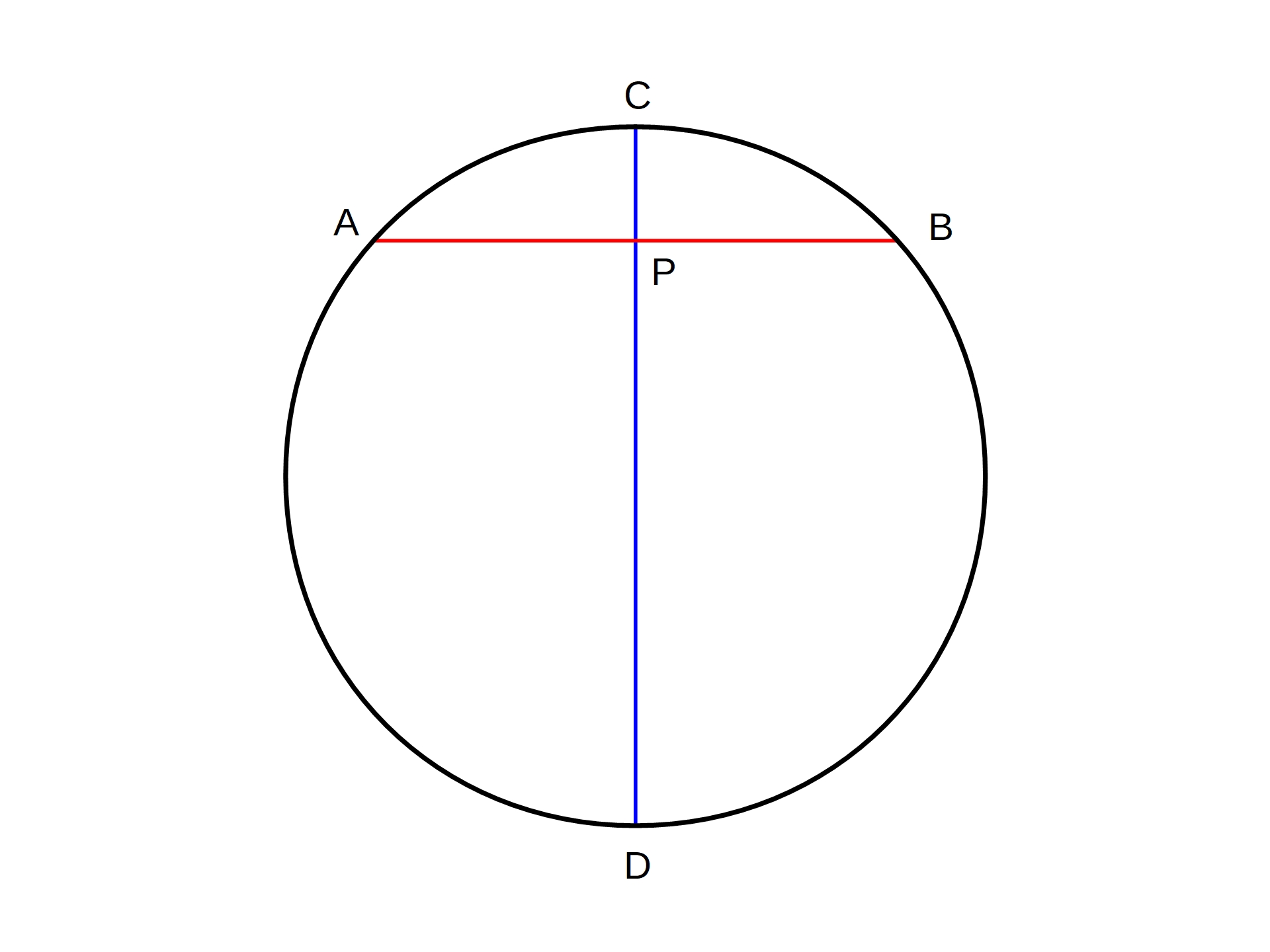 A circle with chords AB and CD that cross on a point P